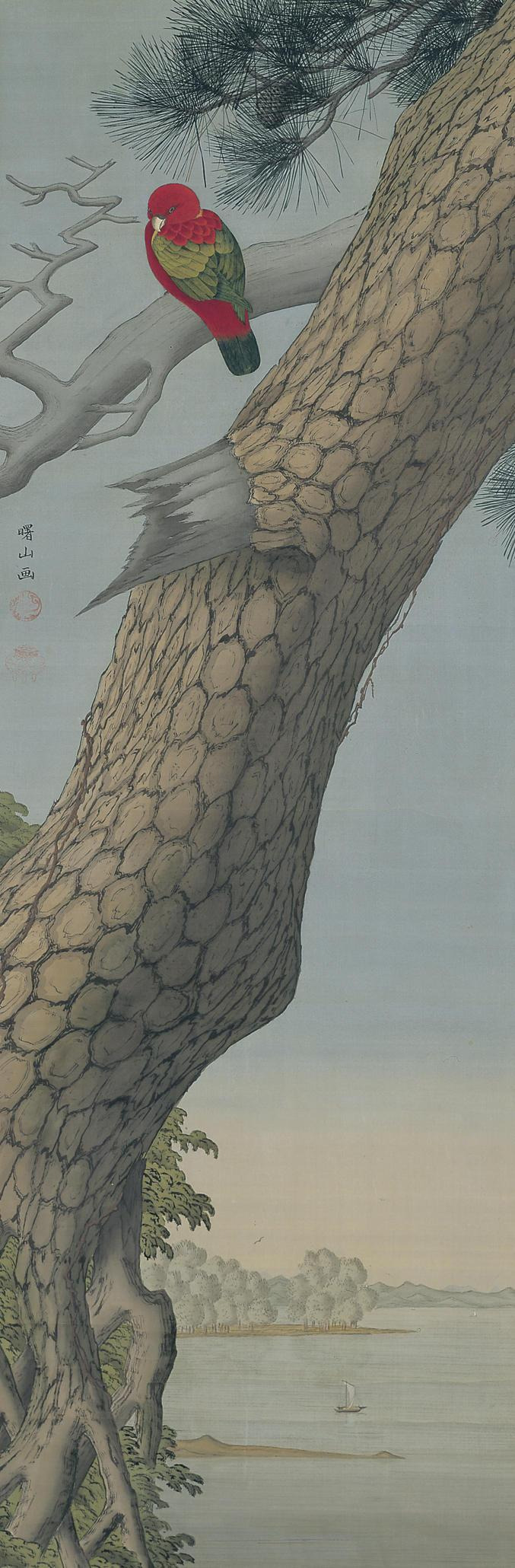 Foreign bird in a pine tree by Satake Shozan, Yokote, Akita, Japan